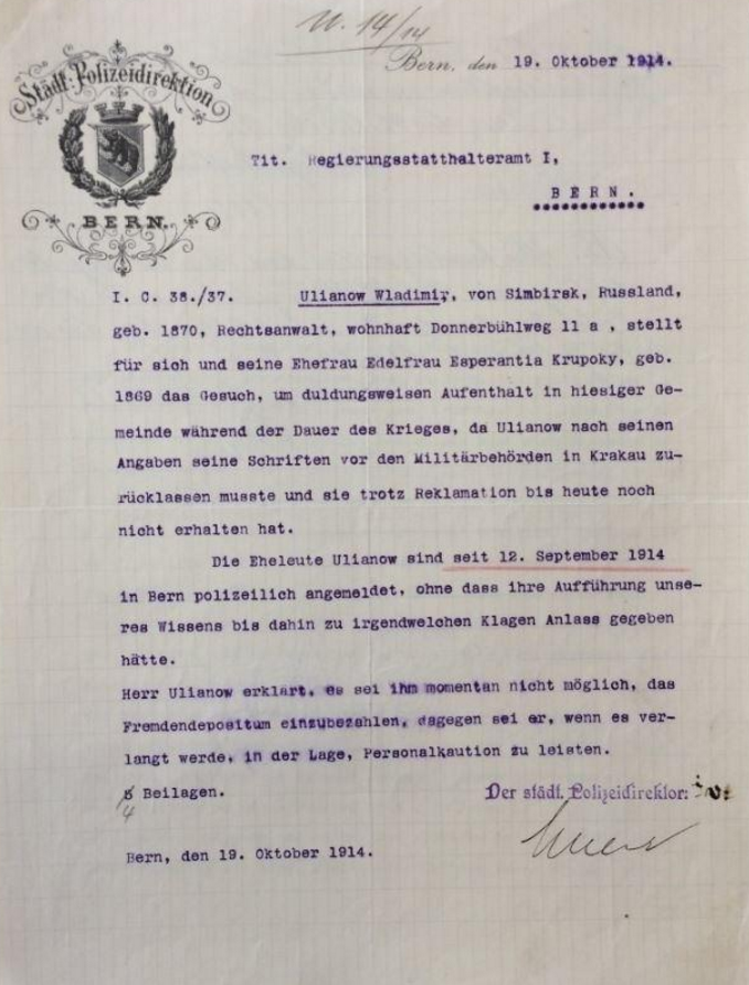 Letter by the chief of police of Bern, Switzerland to the prefect of Bern, forwarding the request of a temporary residence permit by Wladimir Ulianow (Lenin) and his wife, 19 October 1914.